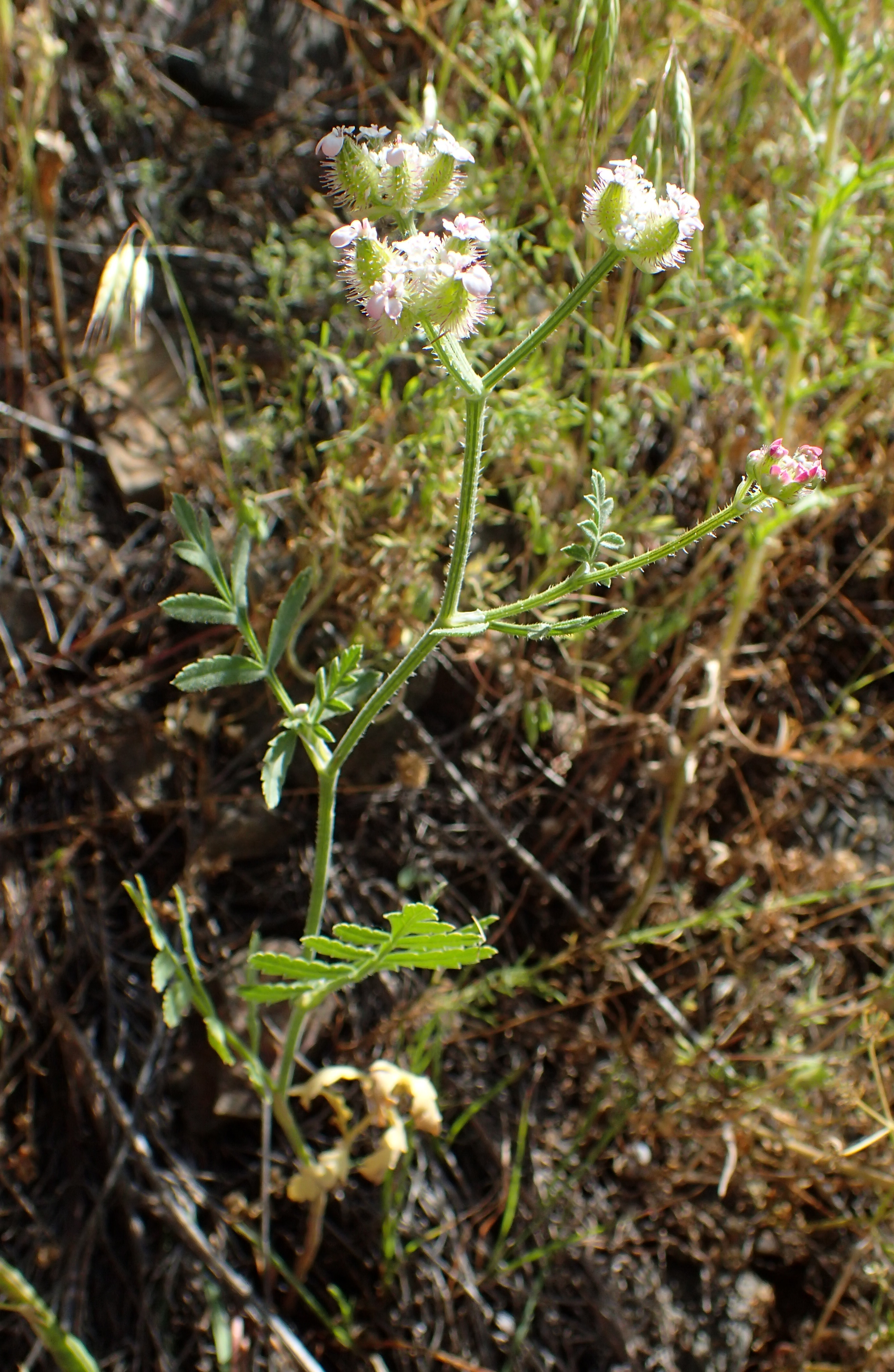 Turgenia latifolia in Vayk, Armenia